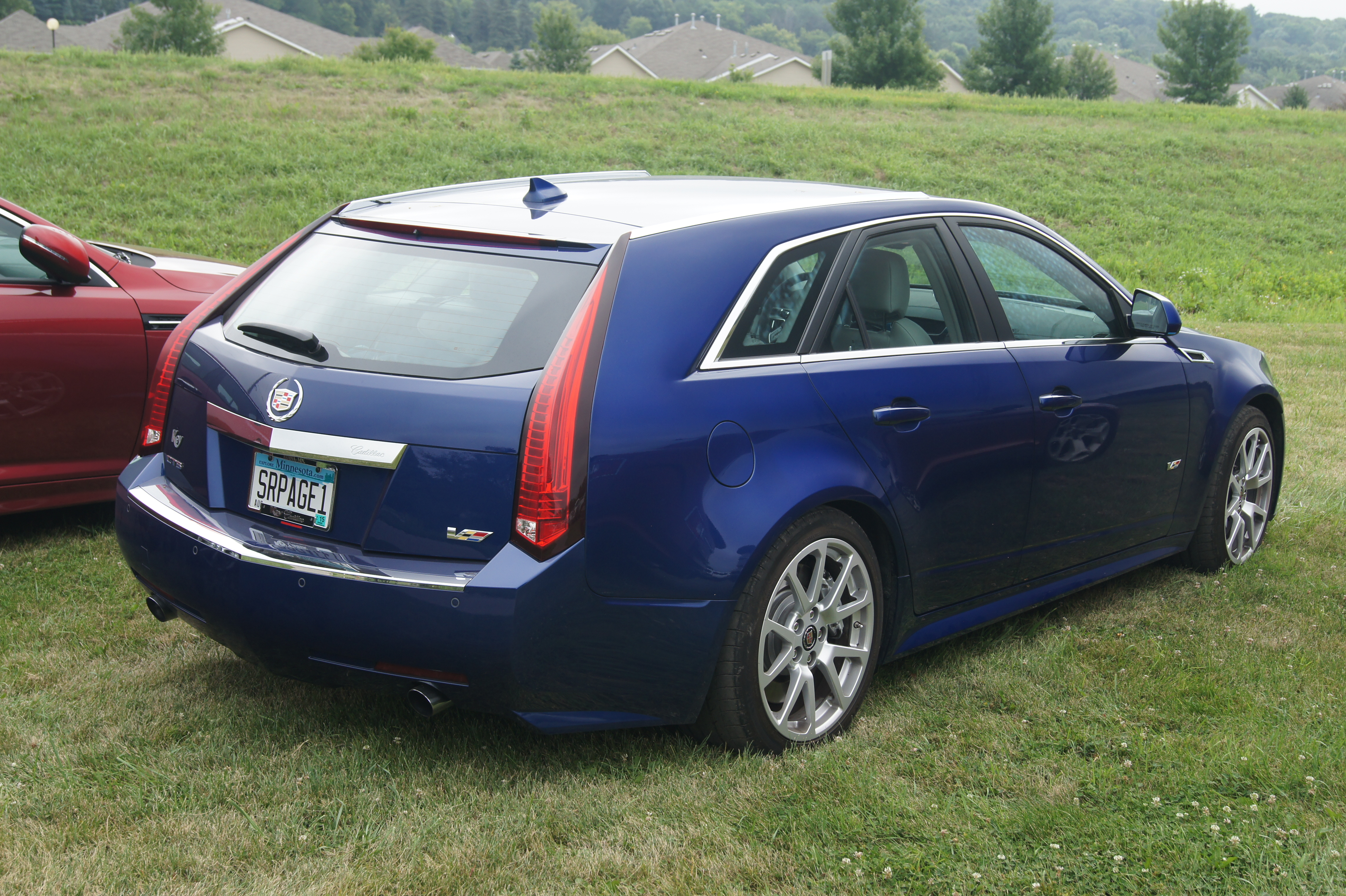 Professional Car Society International Meet 2014 Respond to Rochester Host: Northland Chapter (Celebrating Northland's 25th Anniversary) PCS Concours D'Elagance Show & Shine August 16, 2014 Olmstead County History Center Rochester, Minnesota You can see more car pictures by clicking on the link below